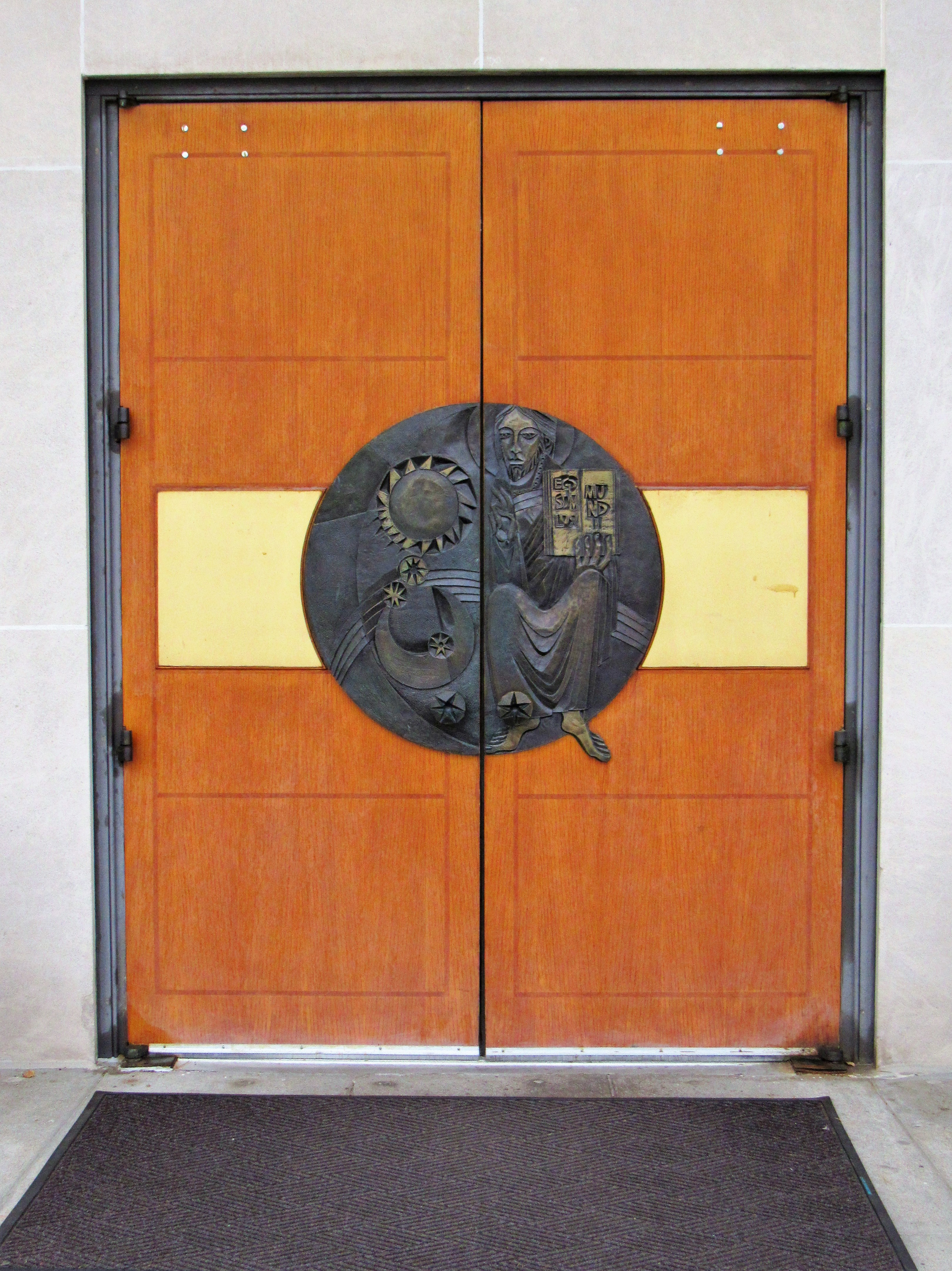 Cathedral of St. Joseph in Jefferson City, Missouri.